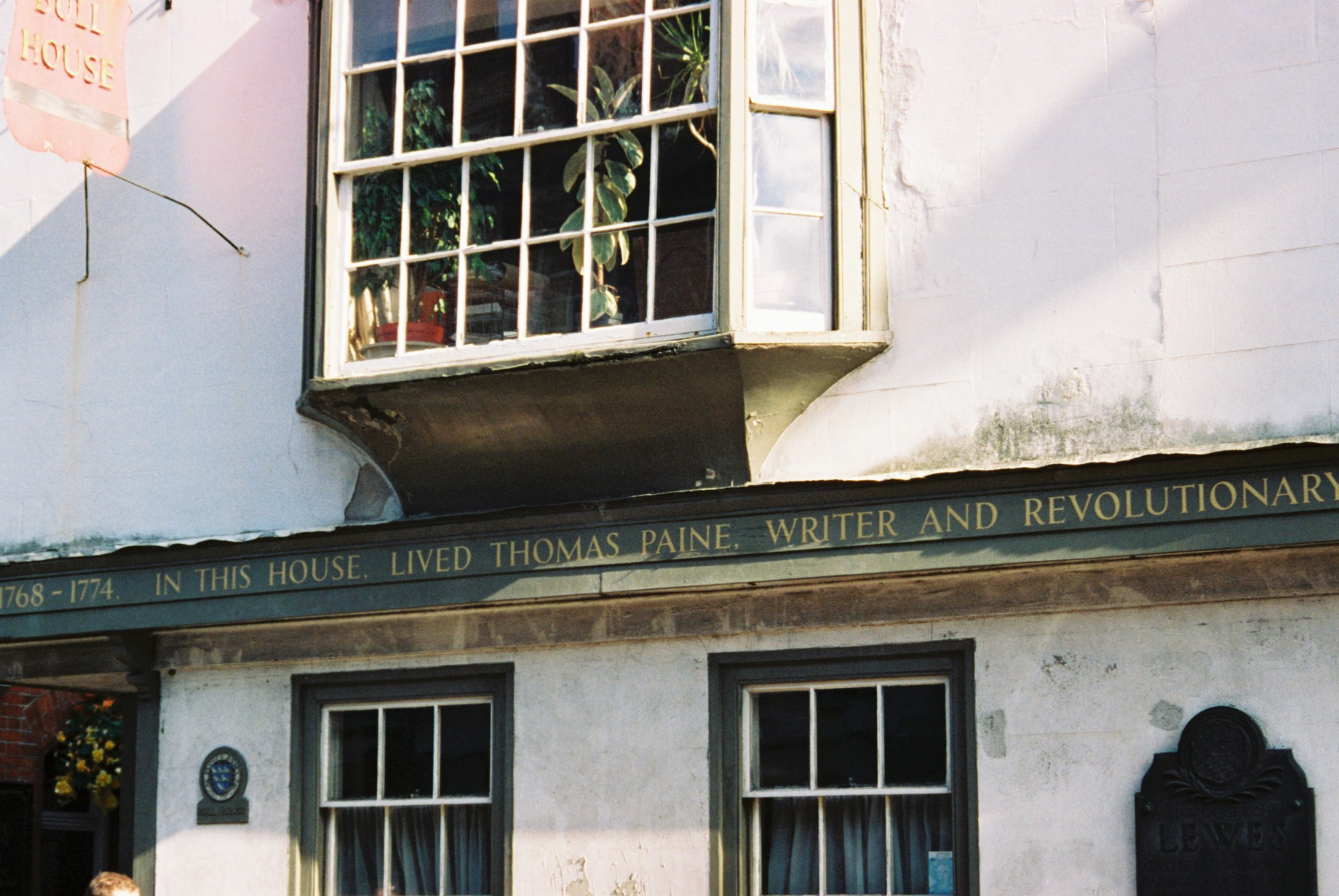 Bull House, Thomas Paine's former home in Lewes. Located at 92 Lewes High Street, Lewes, East Sussex BN7 1XH